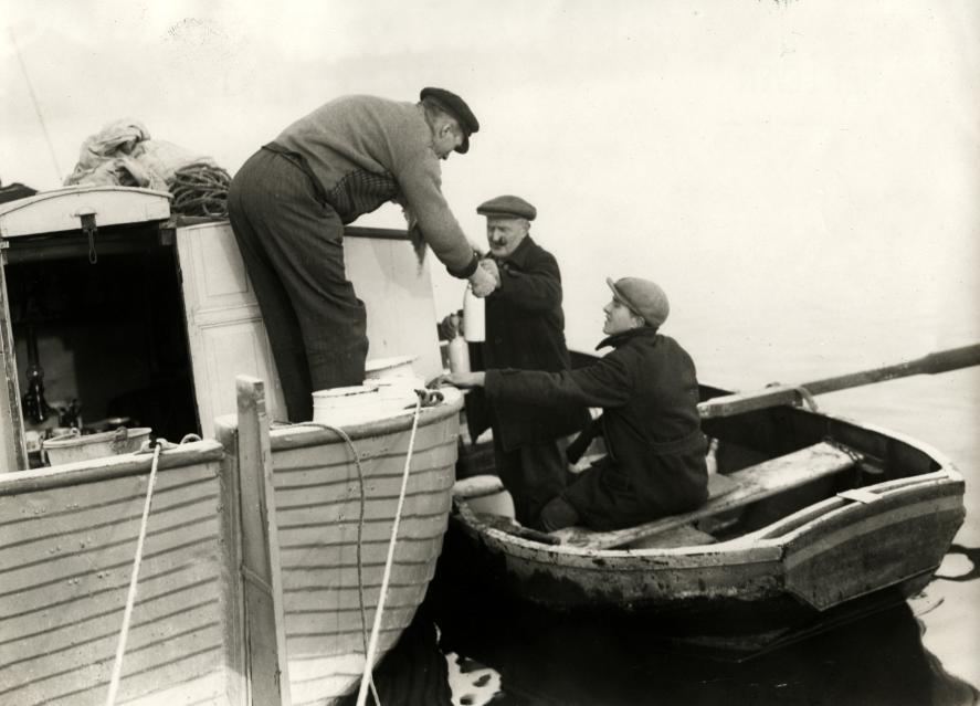 Bumboat trader / floating grocer: grocer in rowing boat selling groceries (milk) to a skipper. 1930.